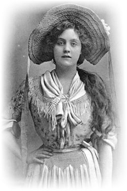 publicity photograph Actress Evie_Greene (1878-1917) - Postcard created to publicise the musical A Country Girl, c. 1904